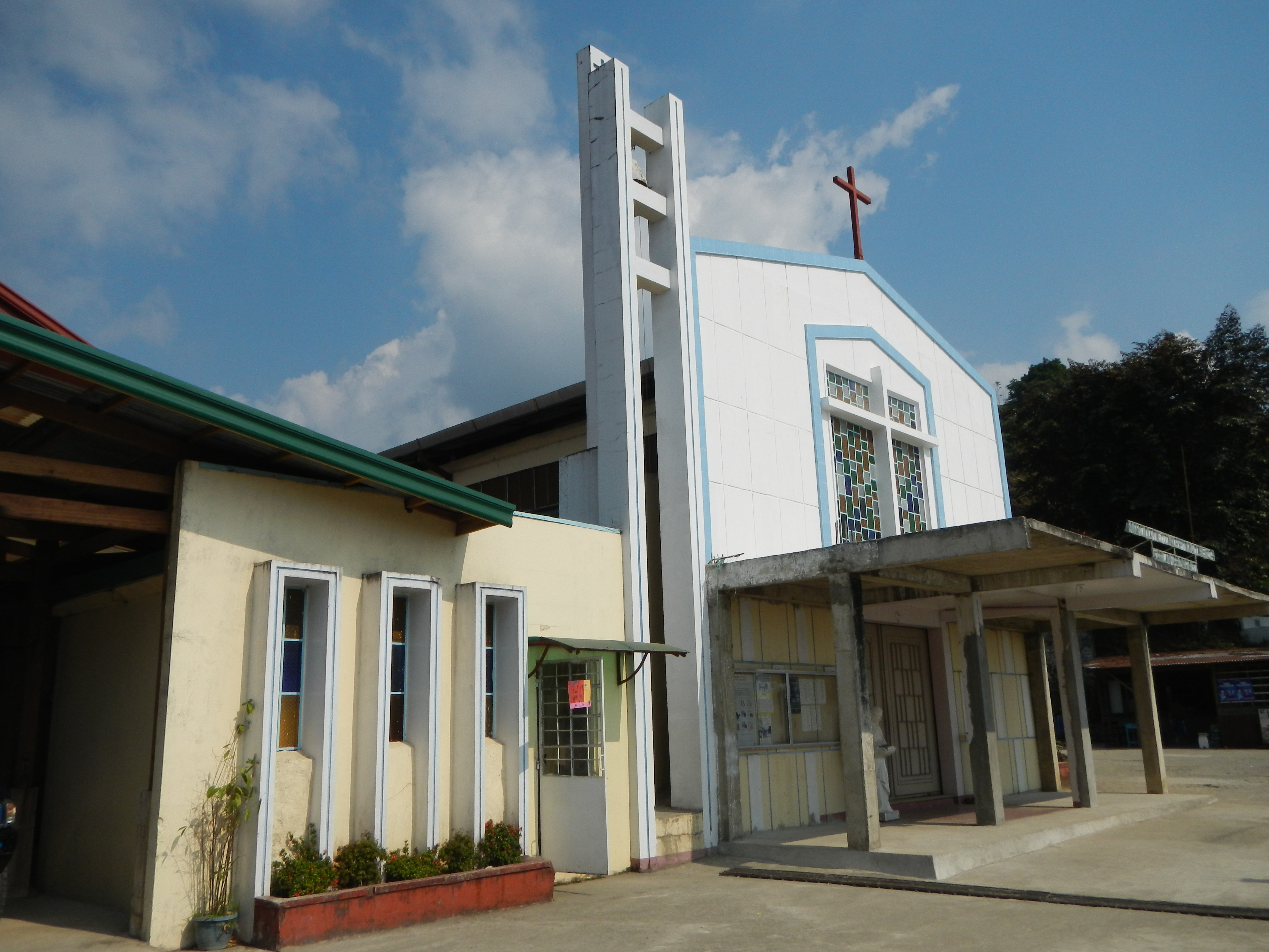 This is part of photos of the beautiful Town Proper of Sablan, Benguet Benguet province (St. Louis School of Sablan beside the Immaculate Conception Parish Church (Sablan, Benguet), Town Proper facing the Cordillera Central (Luzon) mountain ranges).